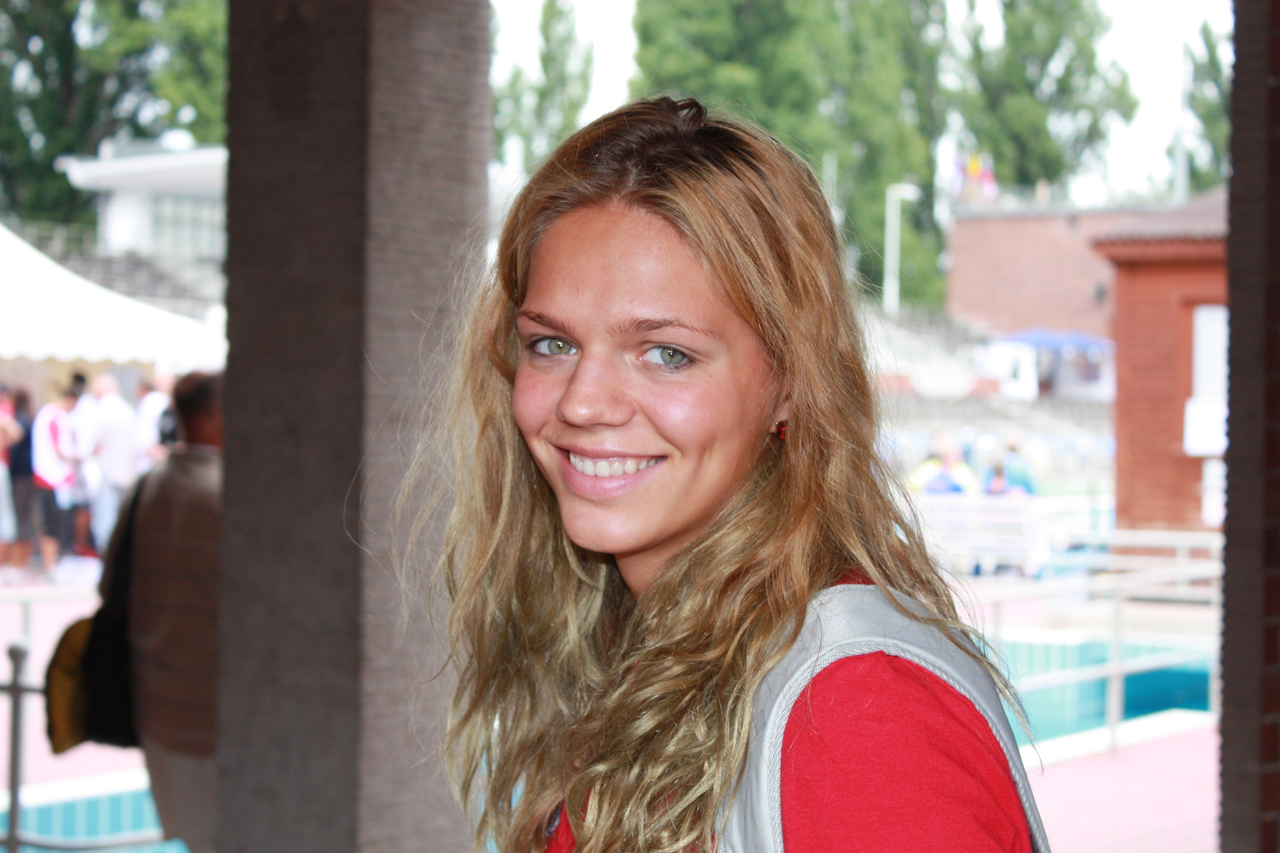 Yulia Efimova at the European Swimming Championships in Budapest-2010